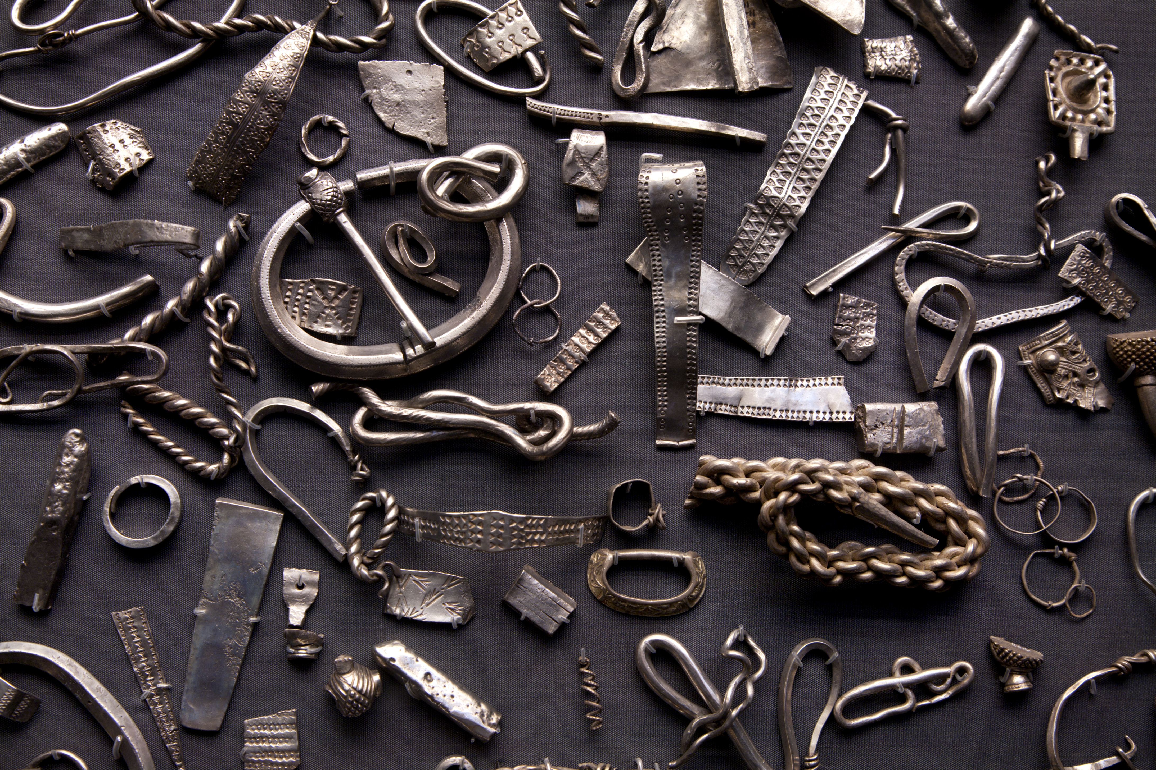 The Cuerdale Viking silver hoard AD 905. British Museum, London, UK